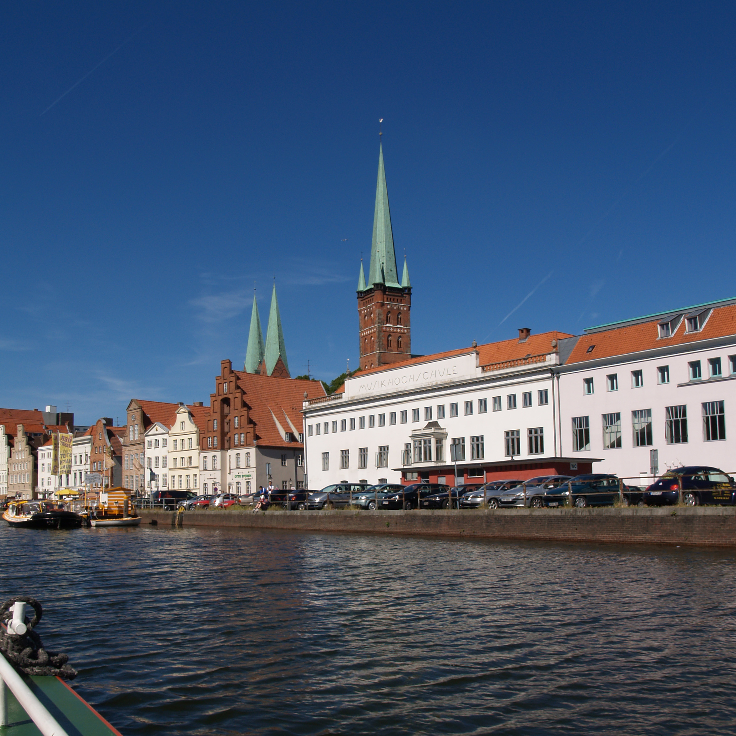 River Trave part 'untere Trave', with Panorama of town with churches St. Marien and St. Petri